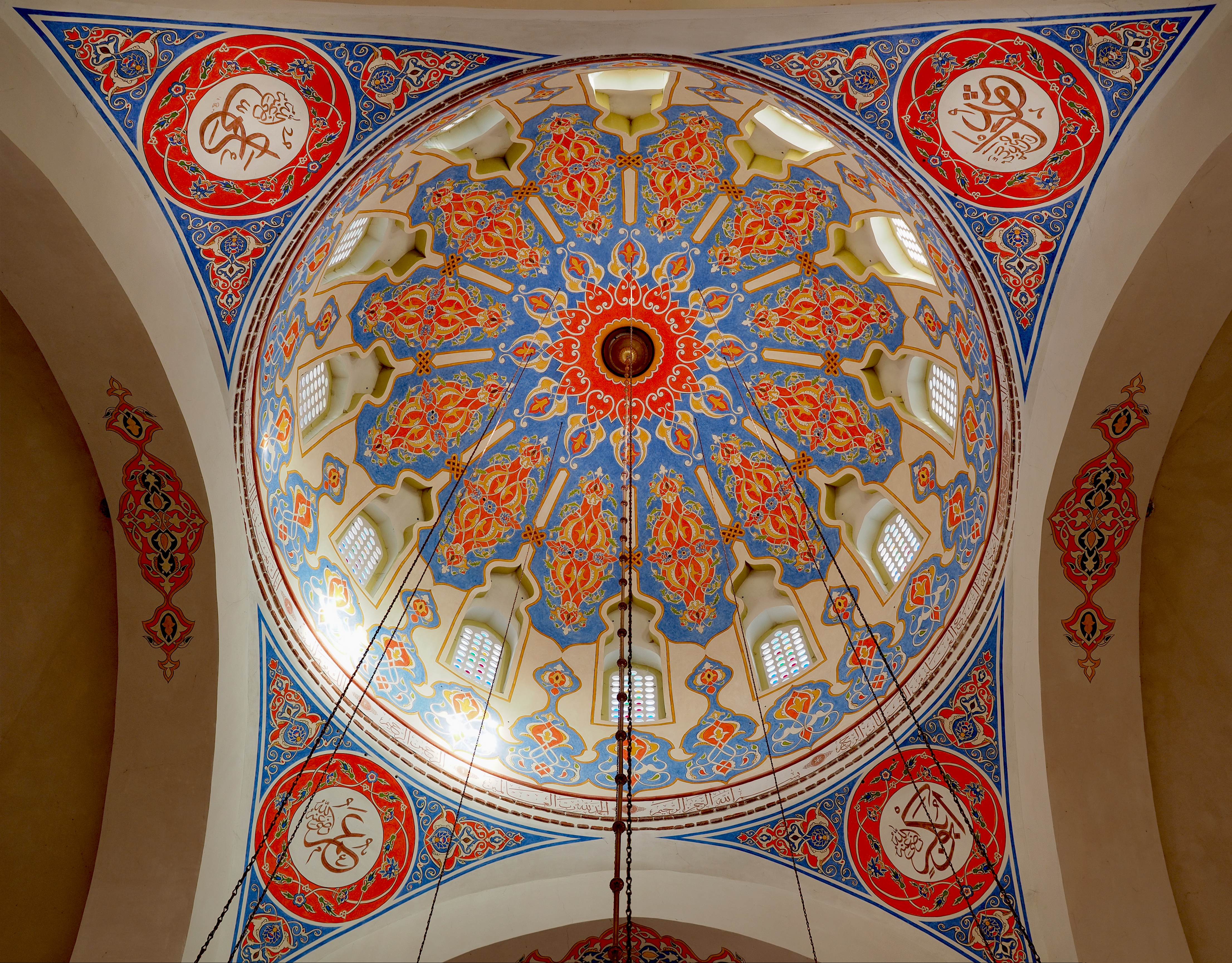 Dome of Ferhadija Mosque (Banja Luka, Bosna i Hercegovina) Српски (ћирилица): Арабеске на крову џамије Ферхадија, Бања Лука, Боснa и Херцеговина Ферхад-пашина (Ферхадија) џамија, са Ферхад-пашиним турбетом, турбетом Сафи-кадуне, турбетом пашиних барјактара, шадрваном, харемом, оградним зидовима и порталом, Бања Лука ID добра: NKD138 This image was uploaded as part of Trace of Soul 2017. This photograph was taken with an Olympus E-M1